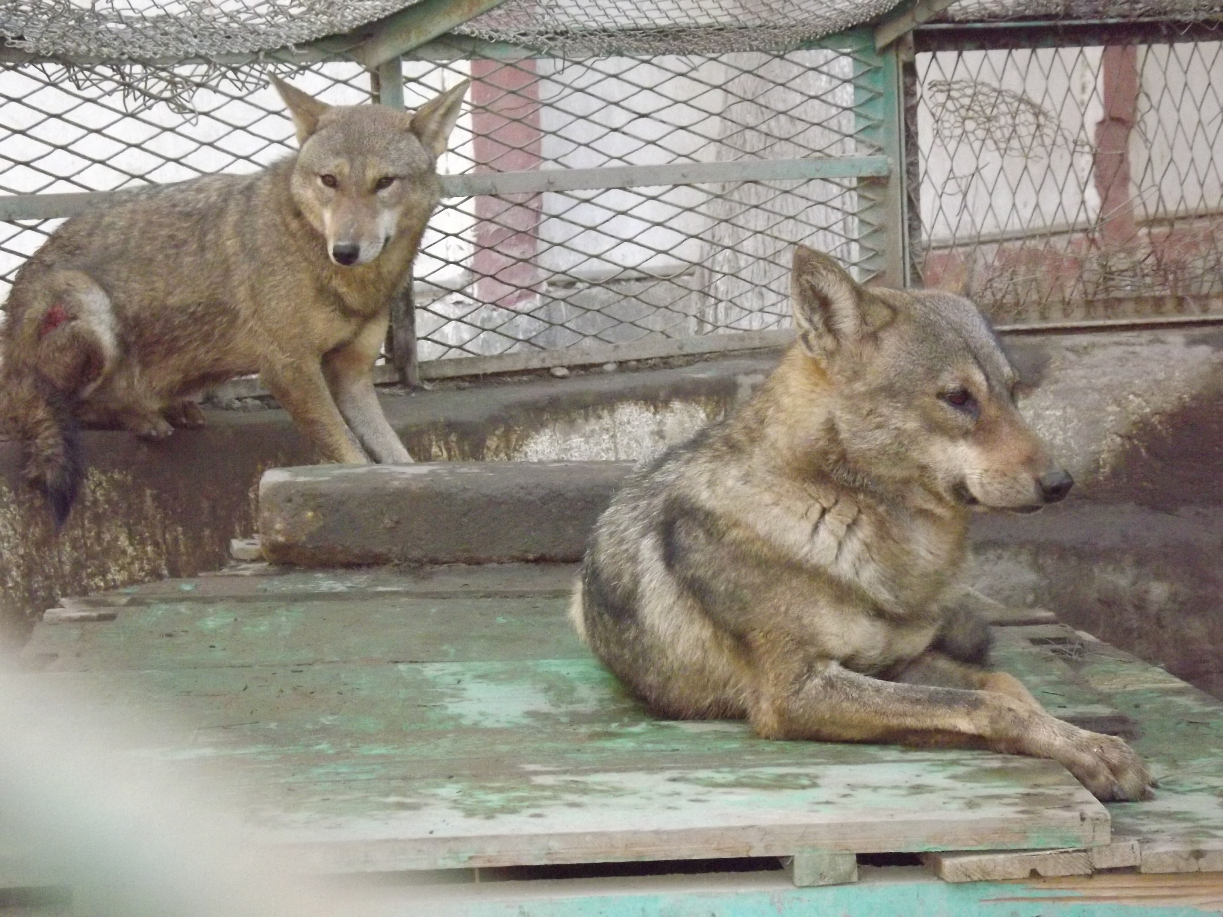 Canis anthus lupaster (Egyptian wolf) At Fayoum